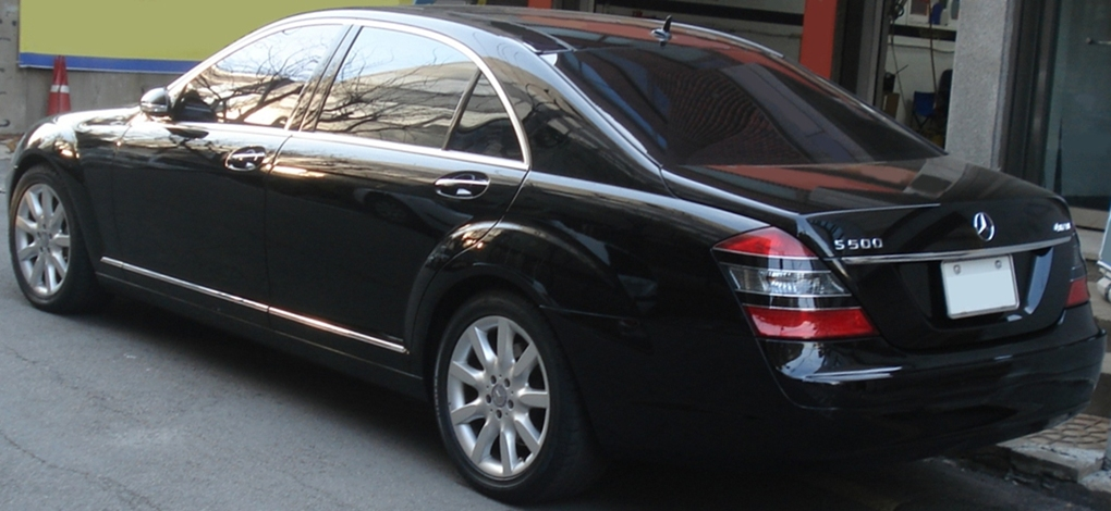 Mercedes-Benz S-Class